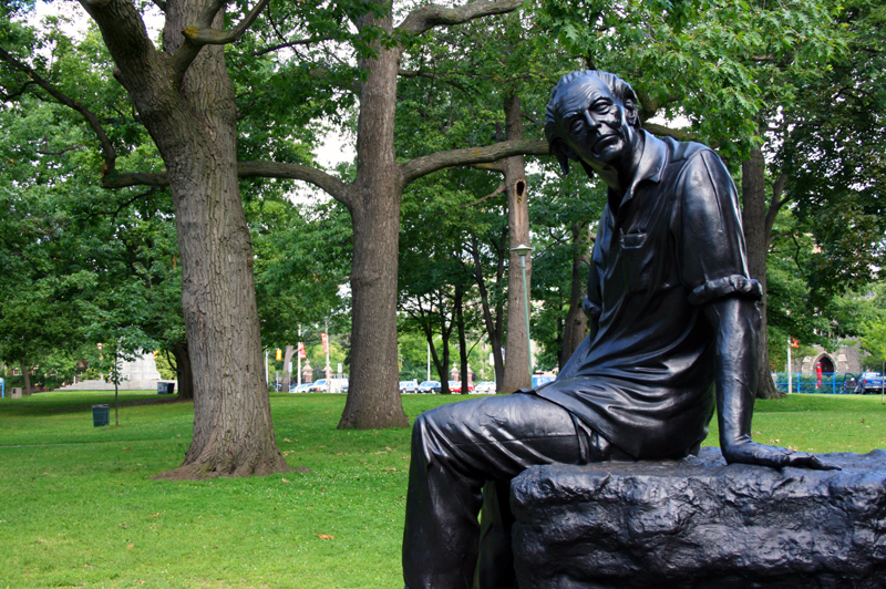 Memorial statue of Alfred Purdy, by Edwin and Veronica Dam de Nogales. 2008 Purdy, who died in 2000 at the age of 82, was a member of the Order of Canada and a two-time winner of the Governor General's Award for his collections of poetry. In 2001, husband-and-wife sculptors Edwin and Veronica Dam de Nogales of Highgate, Ont., were hired by art philanthropist Scott Griffin and poet Dennis Lee to create a statue. From Paul Vermeersch: "Al Purdy, the man widely regarded as Canada's first true national poet, died in April, National Poetry Month, in the year 2000. In a way, his death marked the end of a century in which the Canadian cultural identity – under pressure from separatist tensions, two world wars, the rapid development of the mass media and the sensation of being a young nation adrift between older colonial powers and our newer imperialist neighbour – experienced its most profound growing pains. No other poet was as resolute in addressing those pains as Alfred Wellington Purdy. He did so not only by writing about the issues head-on, but also by listening to the people around him, by writing a poetry rooted in the daily life of the people and places of the Canada he knew and loved, from sea to sea to sea. He was writing poems that were relevant to Canadians, and, for over forty years, Canadians listened."